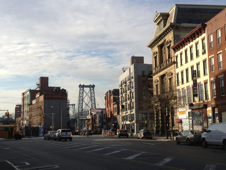 View of South Williamsburg and the Williamsburg bridge